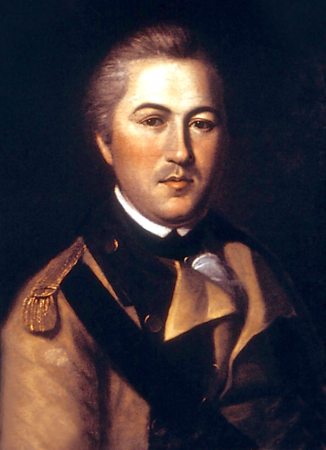 I did a minor restoration to this painting of "Lighthorse Harry" Lee.